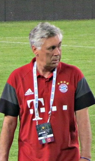 Carlo Ancelotti, Bayern Munich v AC Milan, International Champions Cup 2016